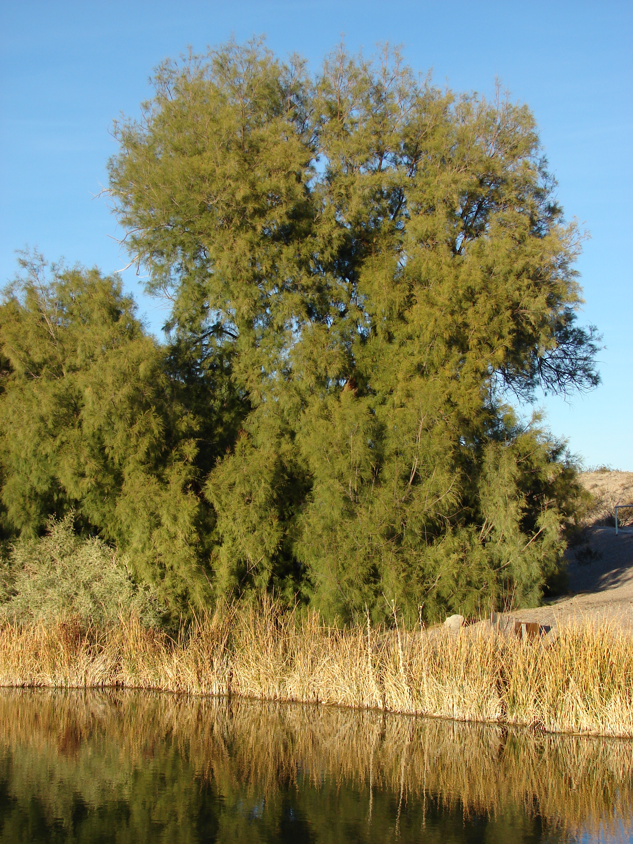 Tamarix sp. (habit). Location: Nevada, Rogers Spring Northshore Rd Lake Mead